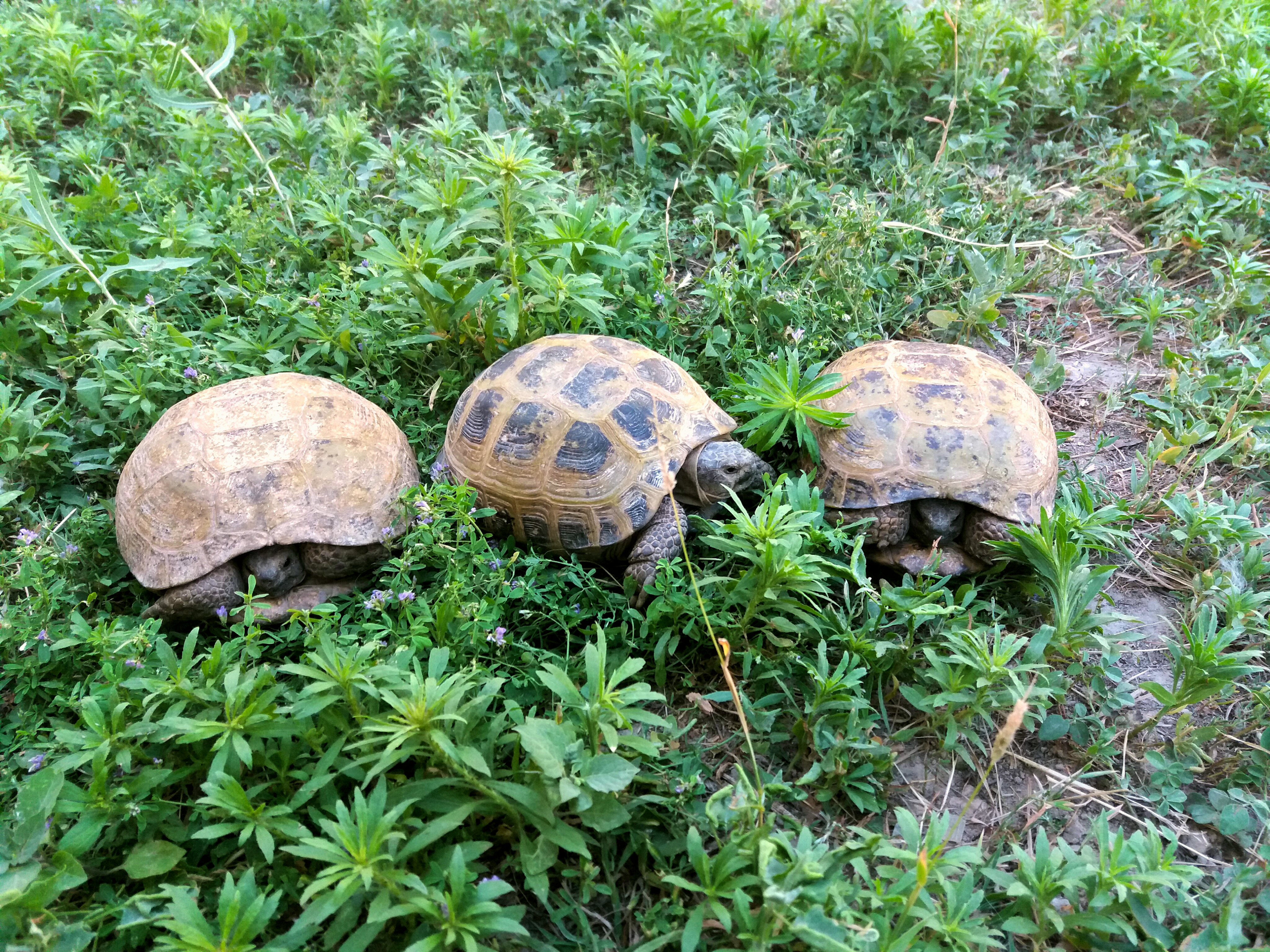 Среднеазиатская черепаха